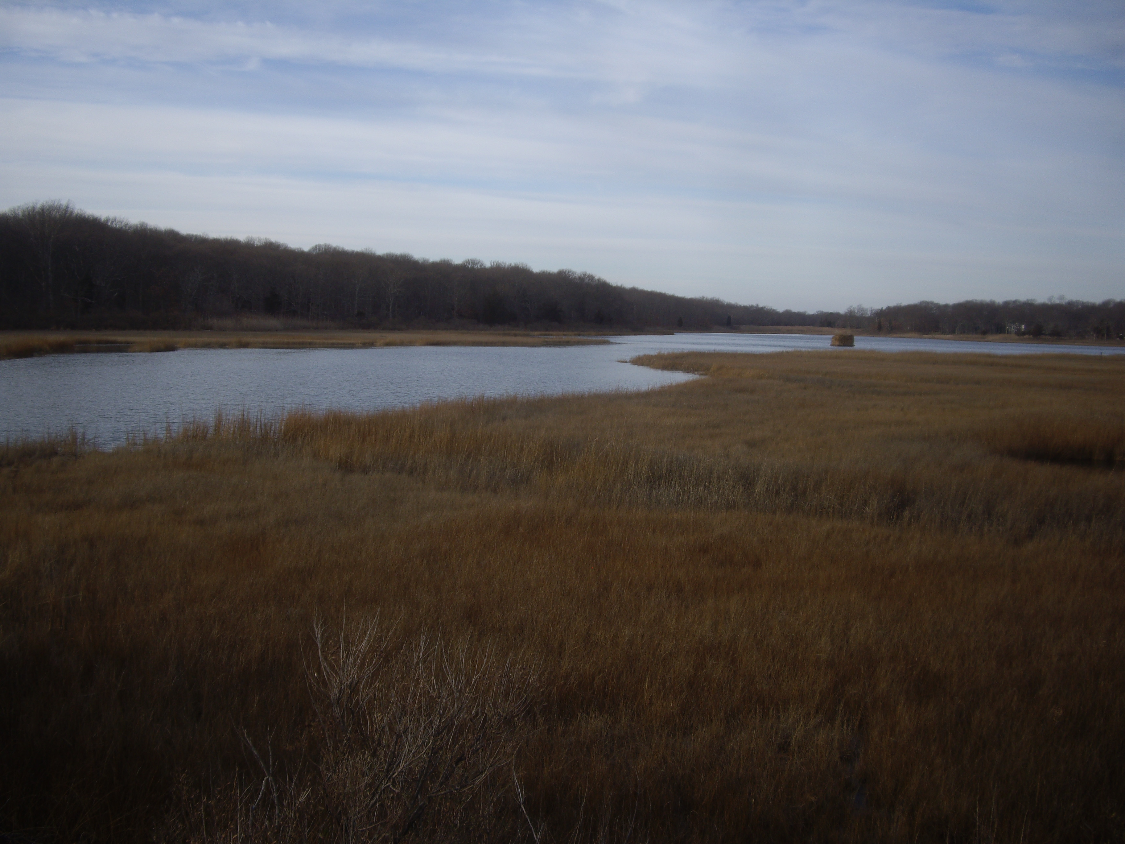 Fort Cochaug Vicinity, Cutchogue, NY